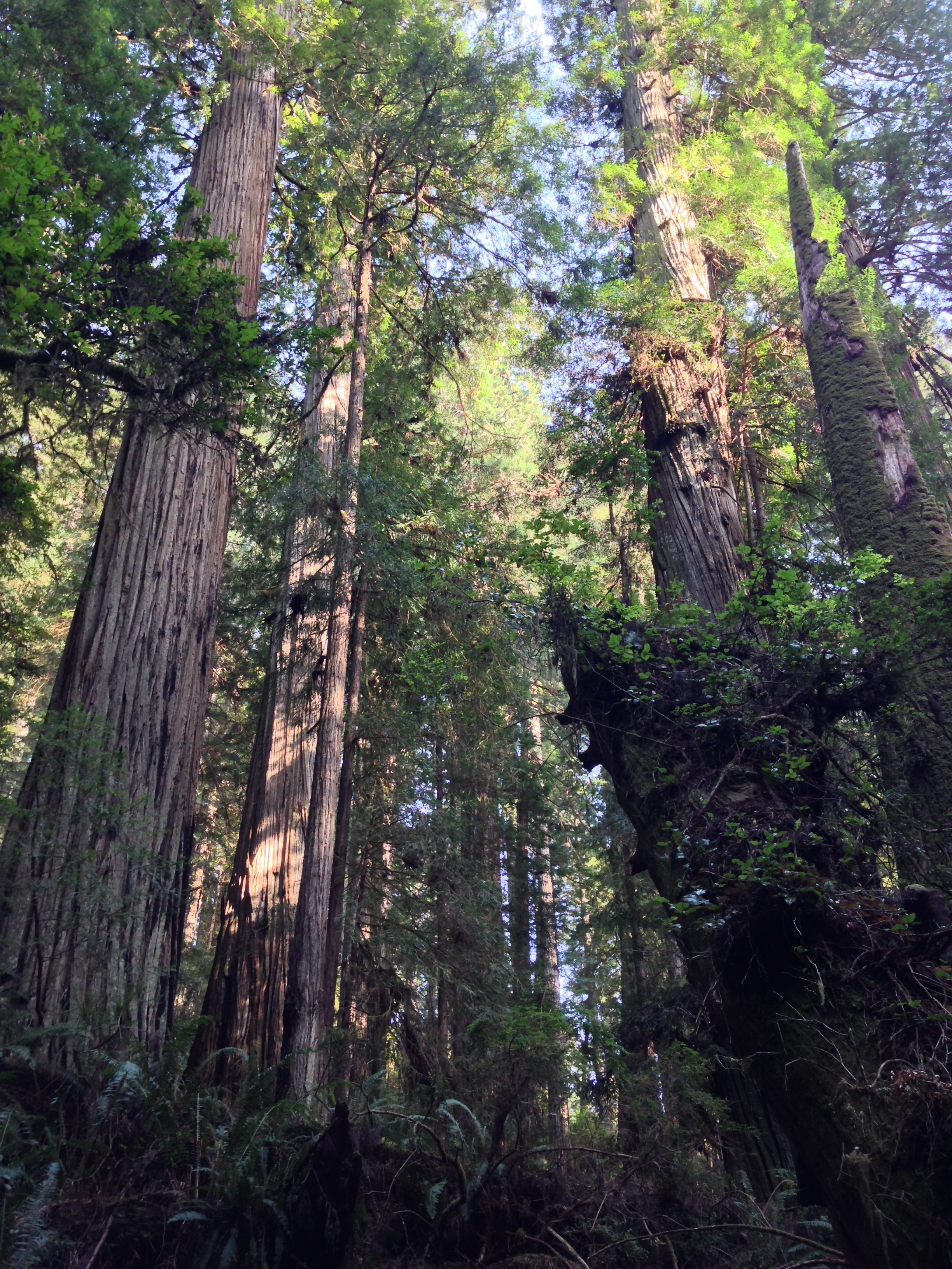 Old growth